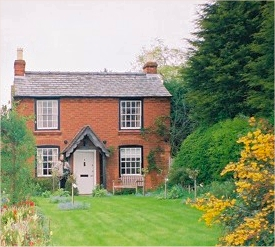 Birthplace of composer Edward Elgar, now a museum, at Broadheath, near Worcester, Worcestershire, England.